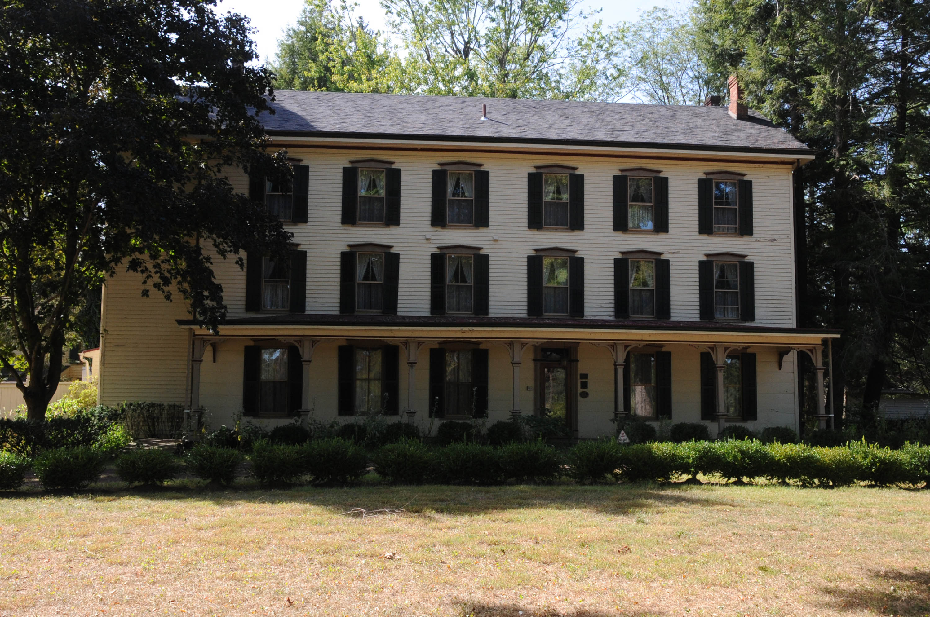 EVERMAY ON THE DELAWARE WAS ORIGINALLY THE RIVERSIDE FARM FROM THE 1700’S. TURNED INTO A INN AND RESTAURANT